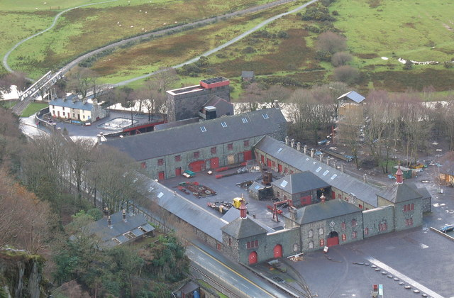 The National Slate Museum at Gilfach Ddu This photo, taken from the top of Vivian Quarry, gives a rockman's eye view of the old quarry workshops at Gilfach Ddu. These buildings, built to the same plan as Fort St George in Canada, were completed in 1870 and replaced the yard buildings at Feiar Injan. The tall building at the back houses the water wheel. The workshops are now home to the National Slate Museum.